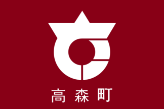 Flag of Takamori Nagano